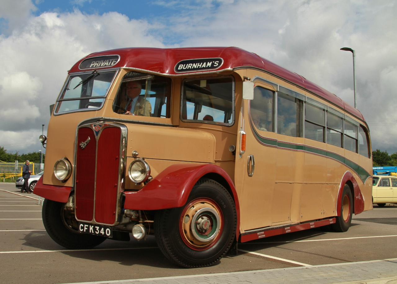 AEC Regal III with Burlingham body in Burnham's livery at Oxford Parkway railway station to celebrate the 50th anniversary of Oxford Bus Museum. The County Borough of Worcester issued the registration mark in 1948.